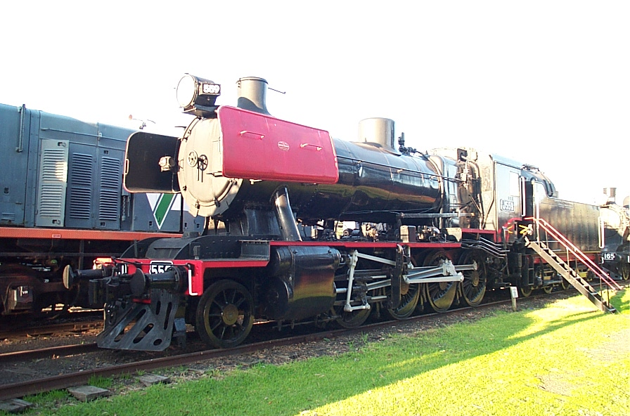 Preserved Victorian Railways J class steam locomotive J 556, preserved at the ARHS North Williamstown Railway Museum. The locomotive wears the plates of scrapped J 559, the last steam locomotive to enter service on the VR.